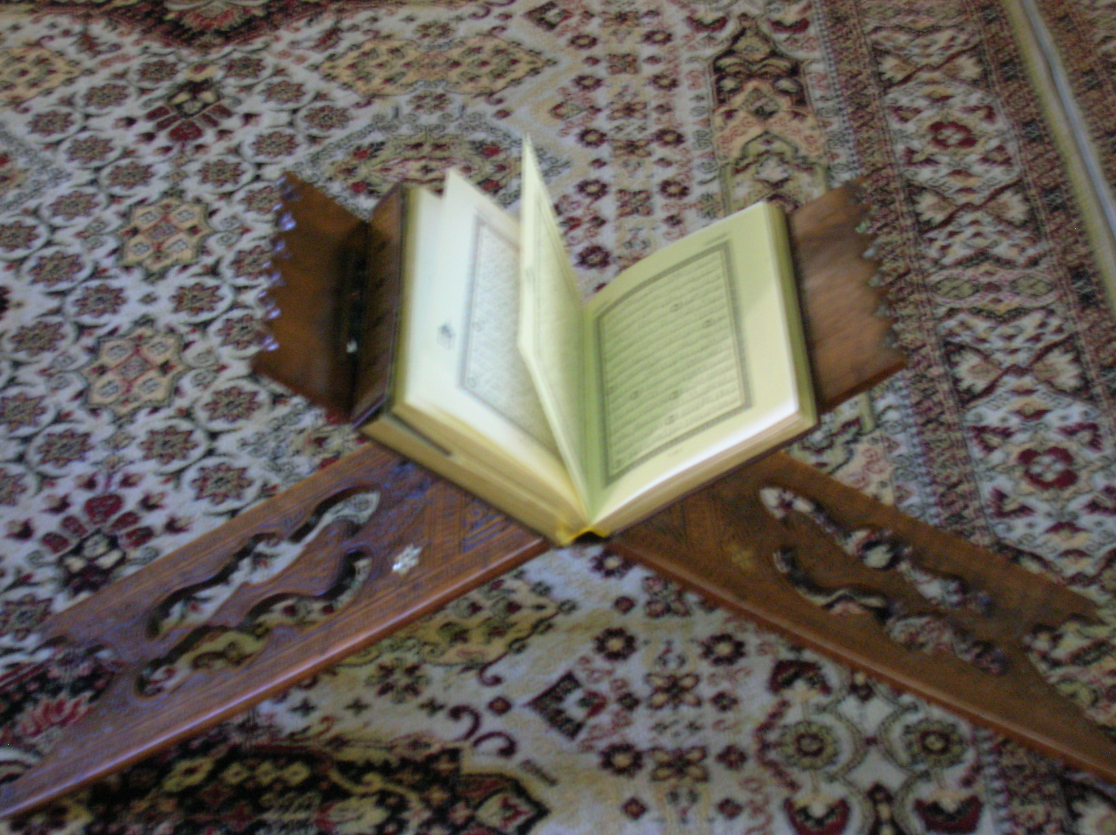 A Koran stand in the Yakovali Hassan mosque, Pécs, Hungary.